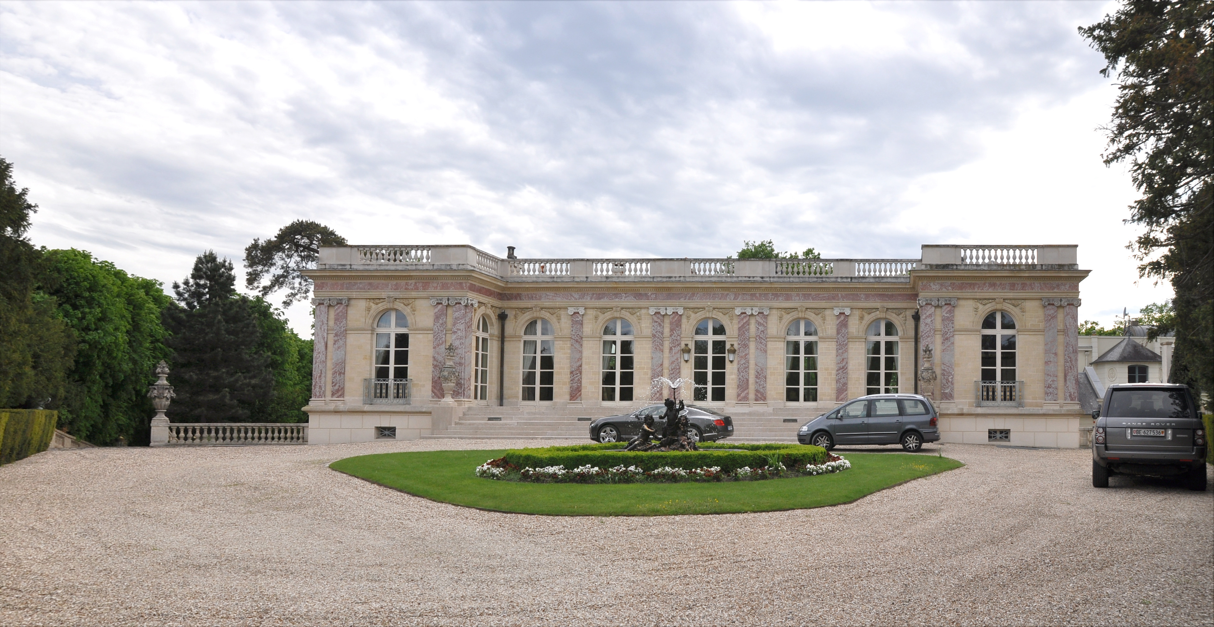 Palais Rose in Le Vésinet, department of Yvelines, France. The mansion is a replica of Grand Trianon and was built about 1899 for the shipowner Schweitzer.